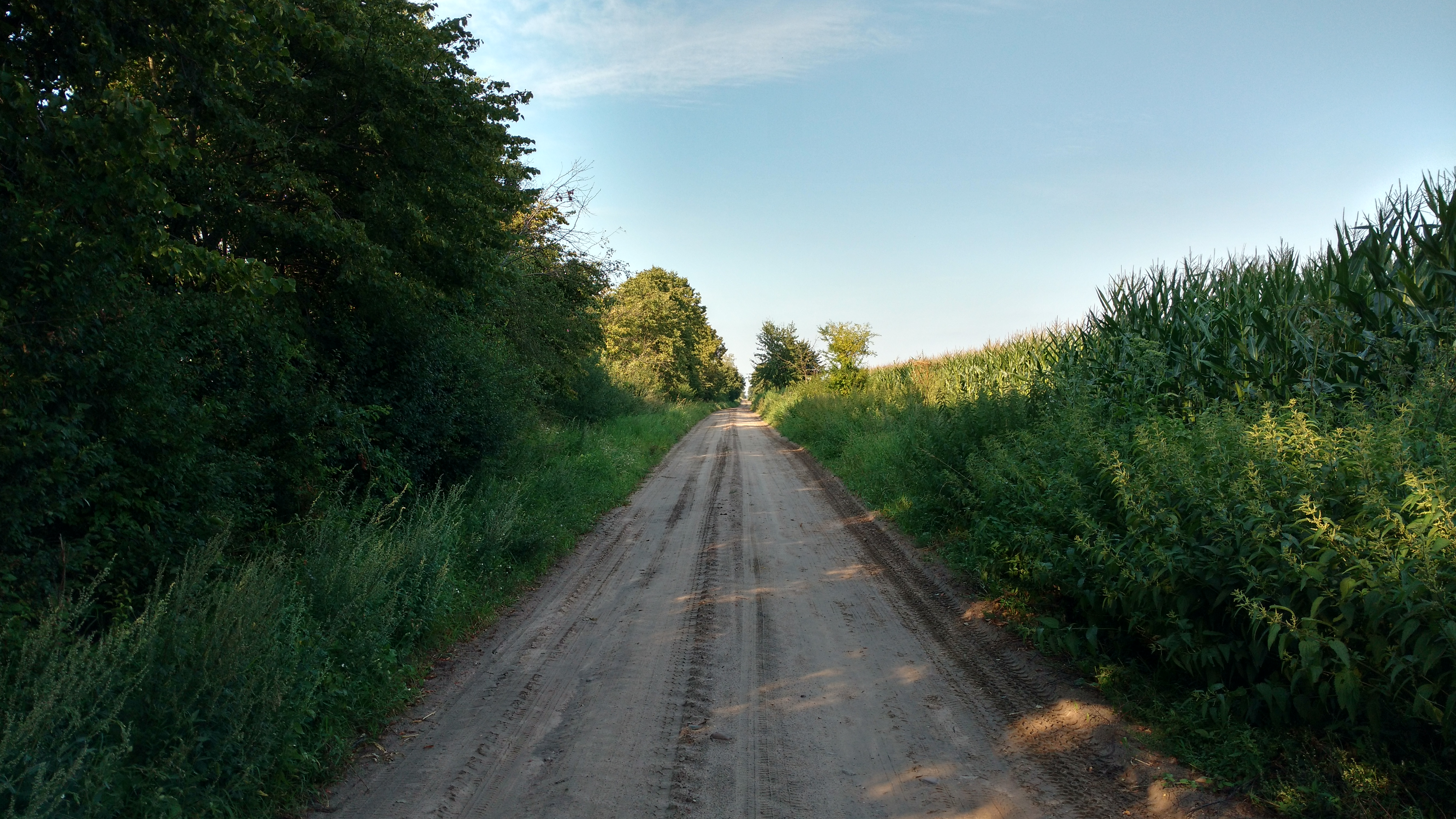 Path between Miłosław and Lipie (Poland)